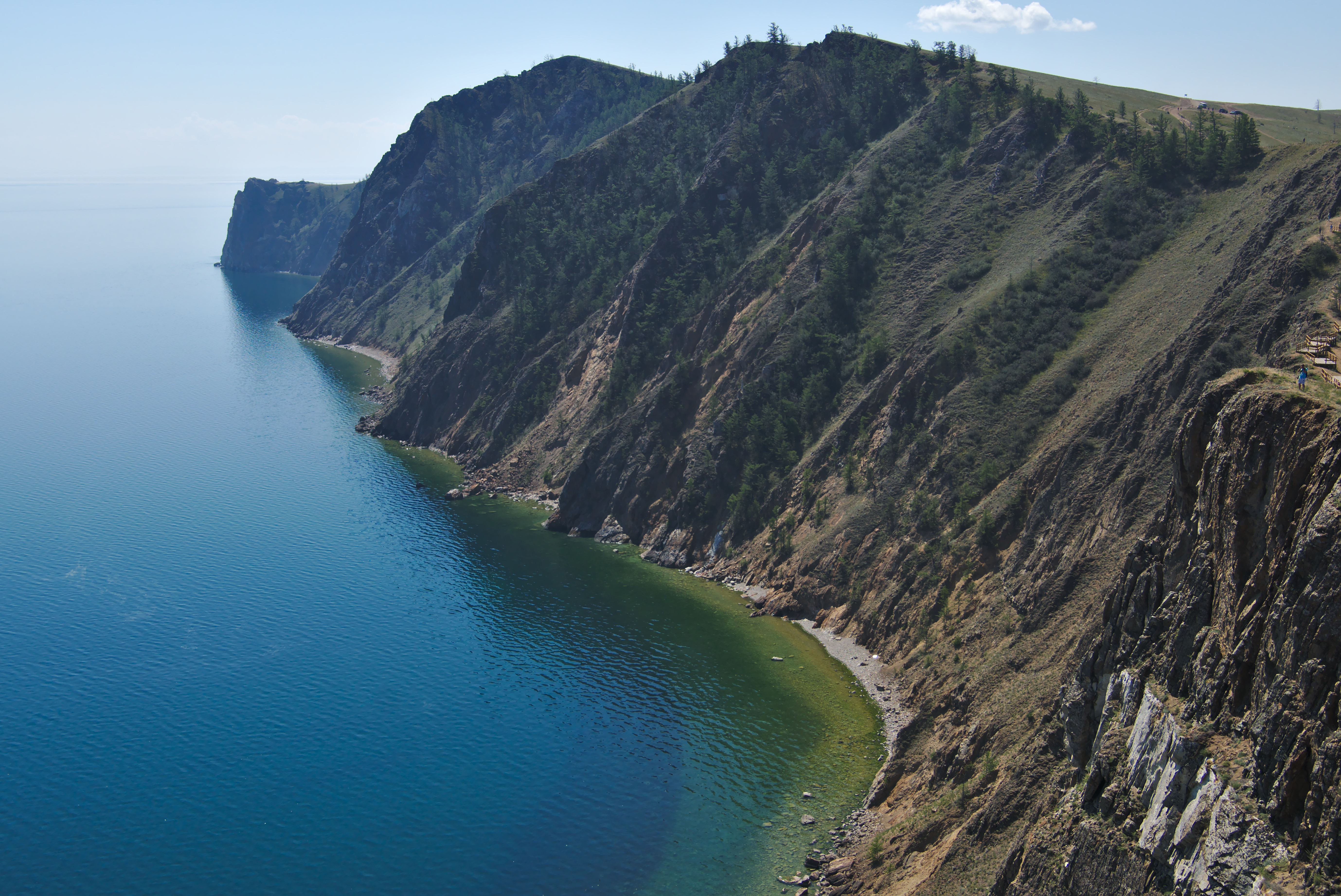 Cape Khoboy, Olkhon Island, Lake Baikal, Russia